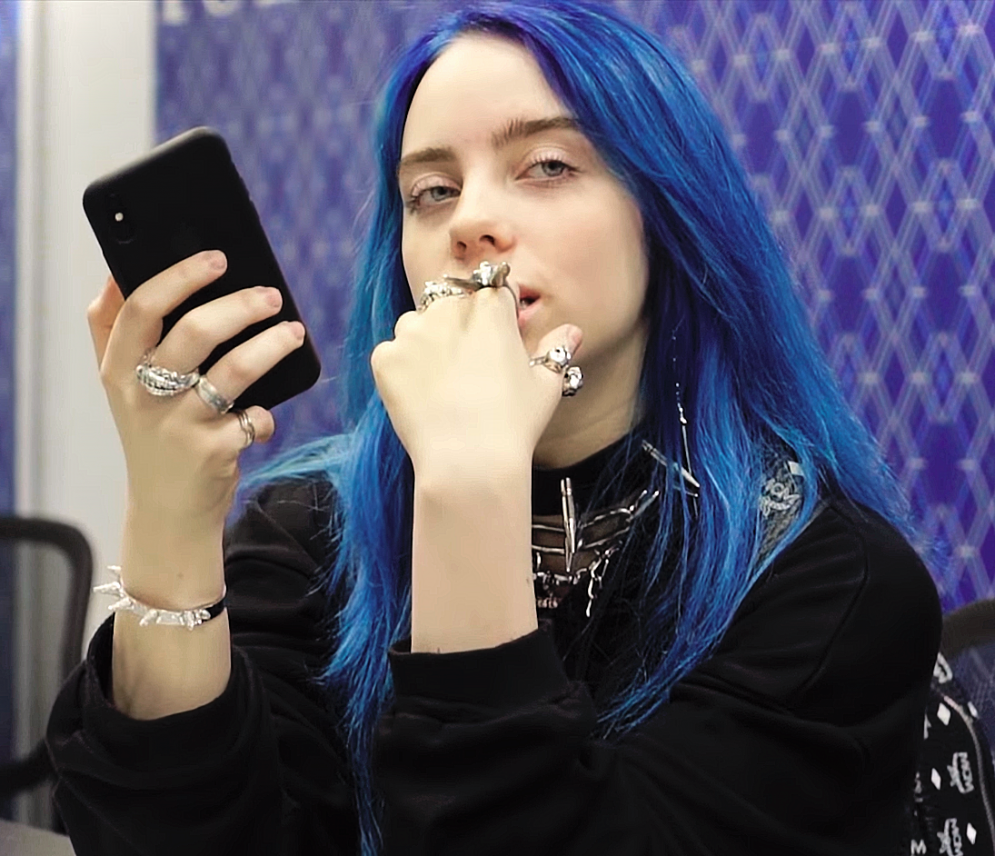 American singer and songwriter Billie Eilish in 2018.